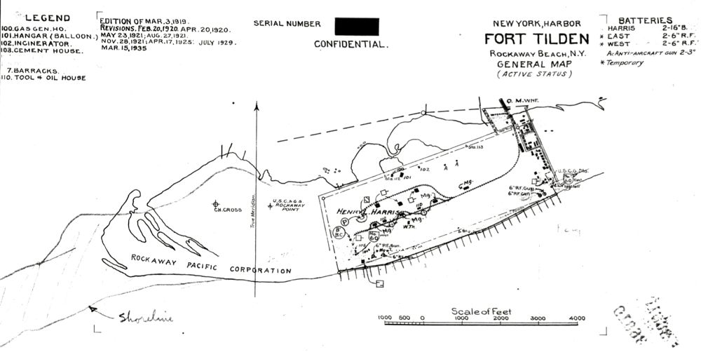 Fort Tilden Plan, NARA